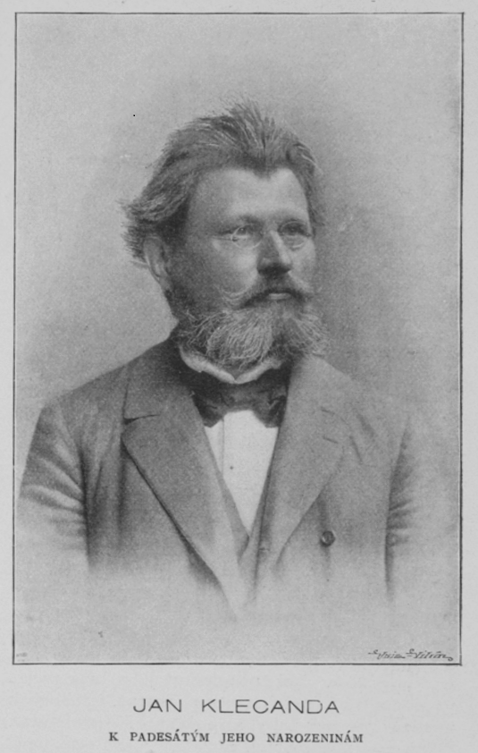 Portrait of Jan Klecanda (1855-1920), Czech writer and journalist. The picture is watermarked by Unie-Vilím, printworks managed by Jan Vilím (1856-1923).